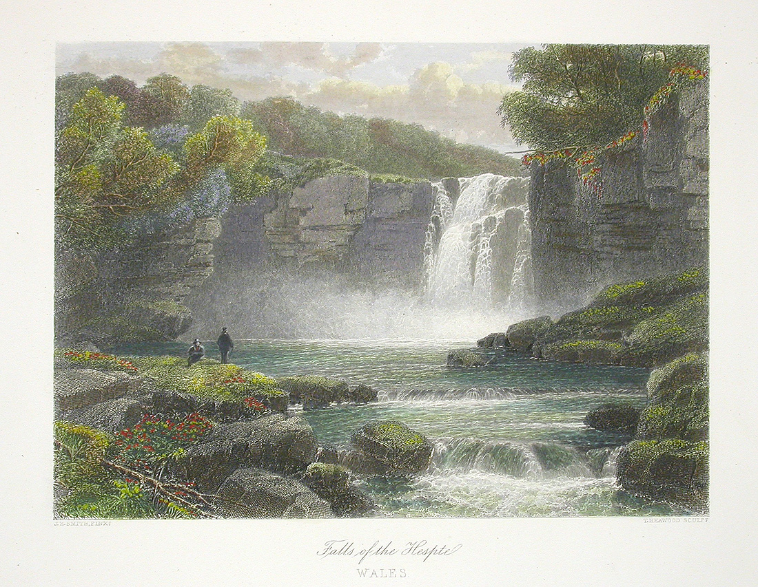 Falls of the Afon Hepste, Wales - Plate from "Picturesque Europe"